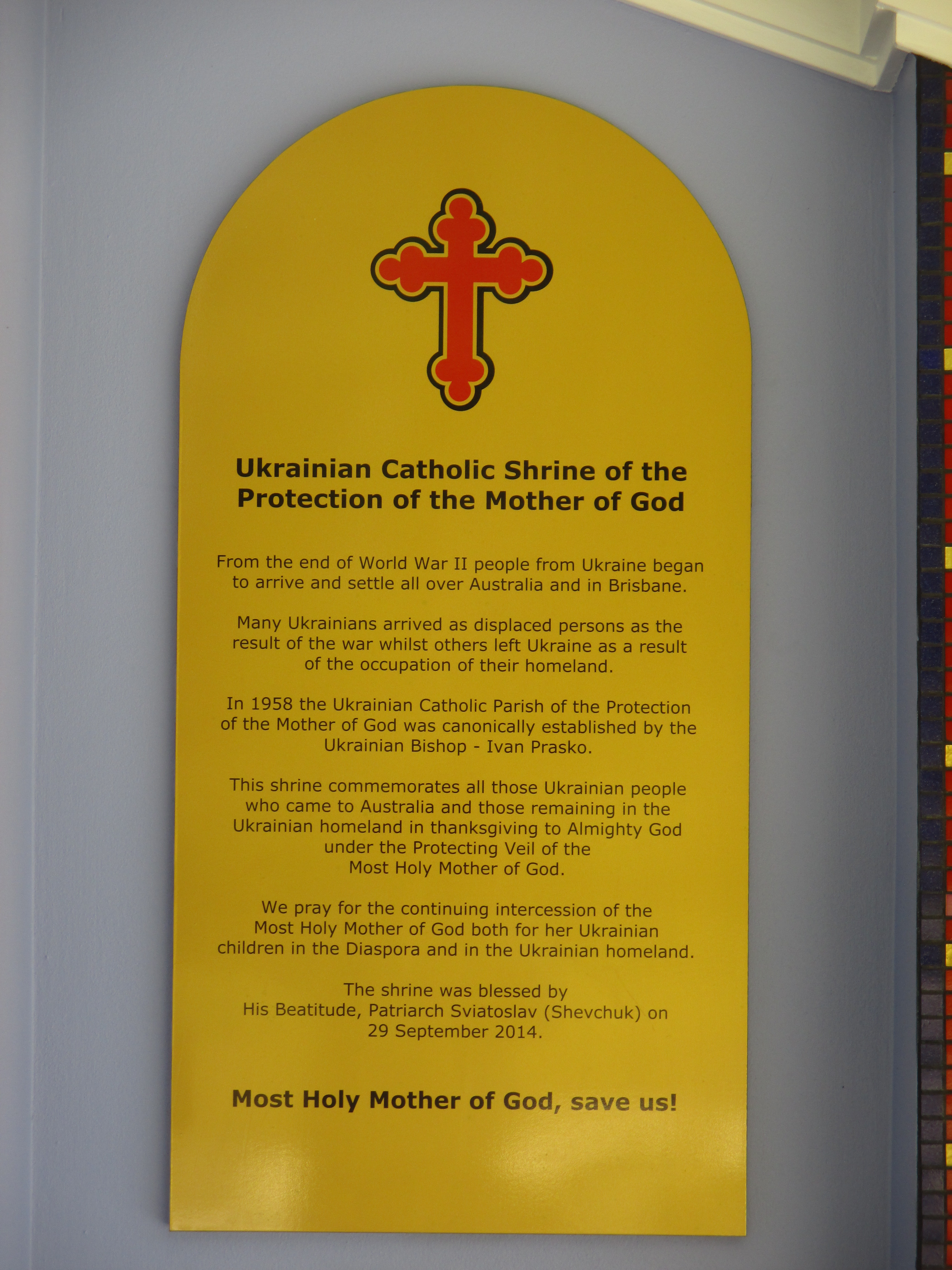 Plaque commemorating the blessing of the Ukrainian Catholic Shrine of the Protection of the Mother of God at the Marian Valley, Queensland, Australia by HB Patriarch Sviatoslav in 2014